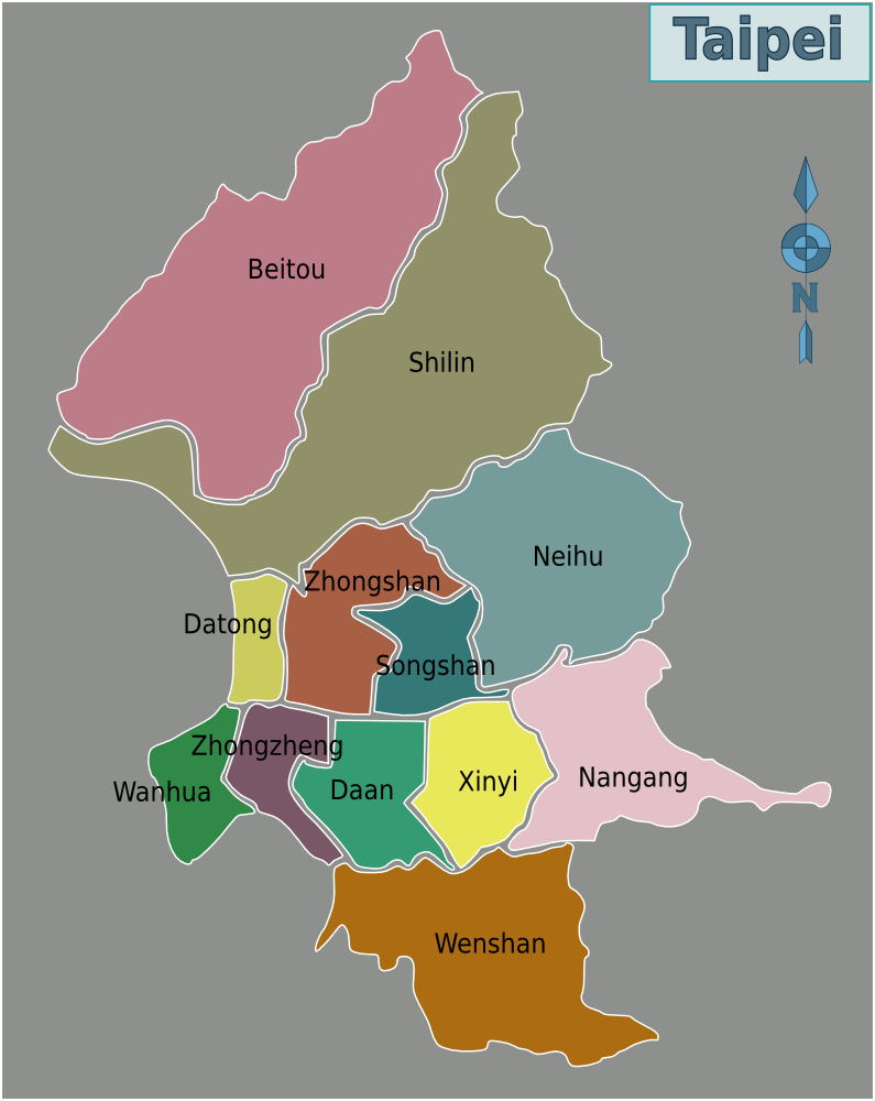 Map of Taipei's districts, Taipei.